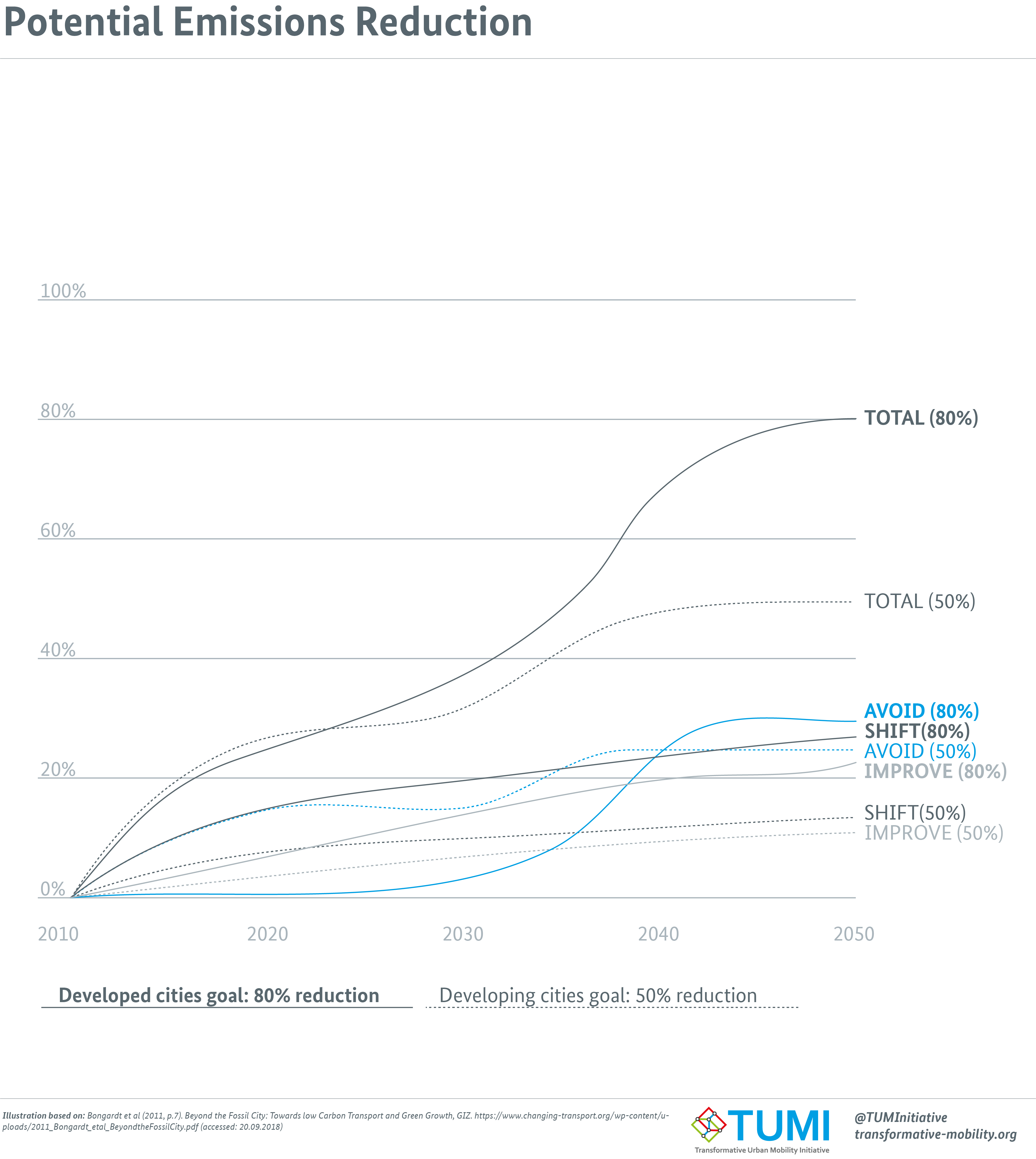 Potential Emissions Reduction Developed cities goal Developing cities goal Avoid Shift Improve Transformative Urban Mobility Initiative (TUMI)